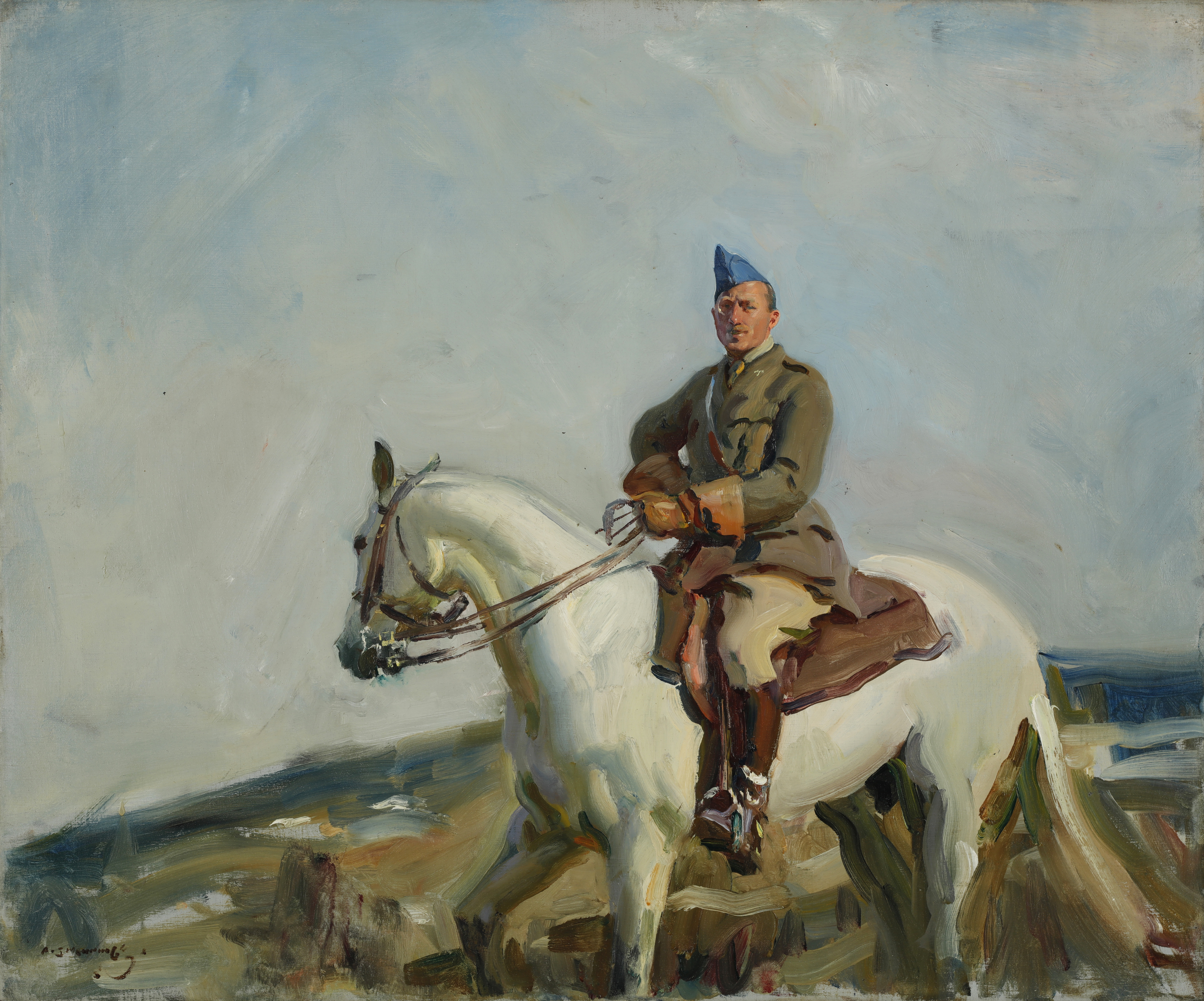 The subject is Olivier d'Etchegoyen, the headquarters staff interpreter for the Canadian Cavalry Brigade